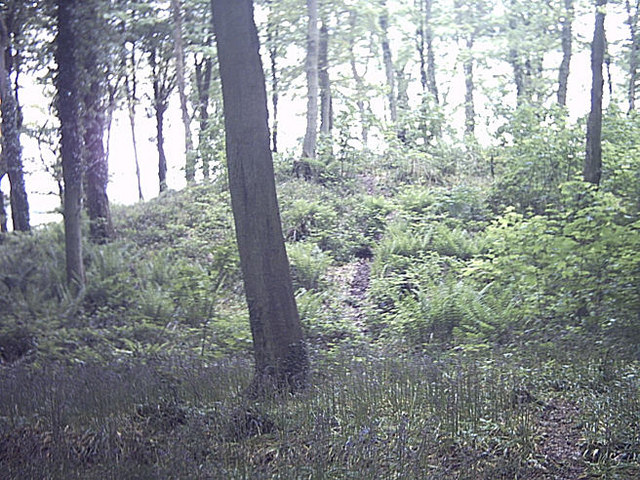 West Woods Long barrow near Clatford Wilts Just off the bridle way you can see this Long Barrow through the trees.